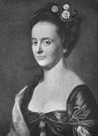 Portrait of Anna Pierce (1744-1771) (Mrs. Joseph Barrell) of Boston, Massachusetts